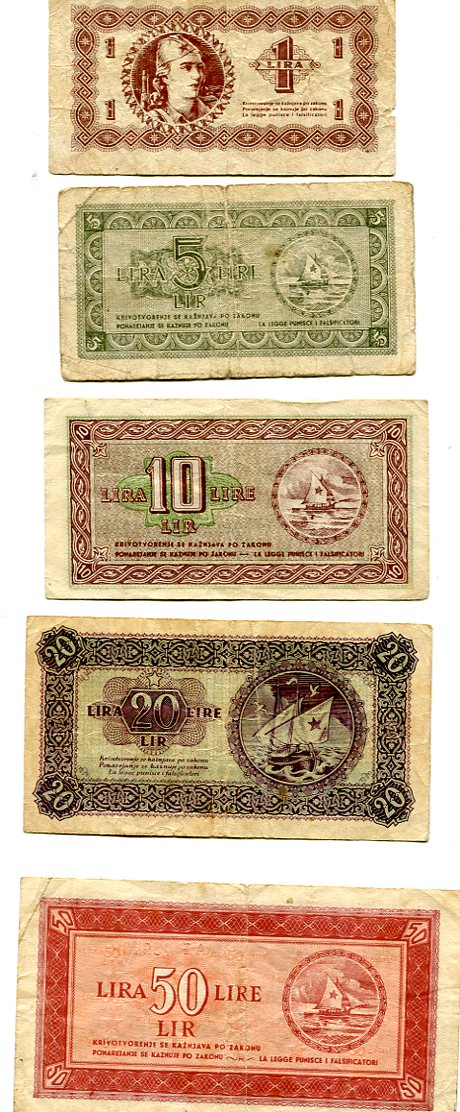 Lira Trieste, "B"Lira